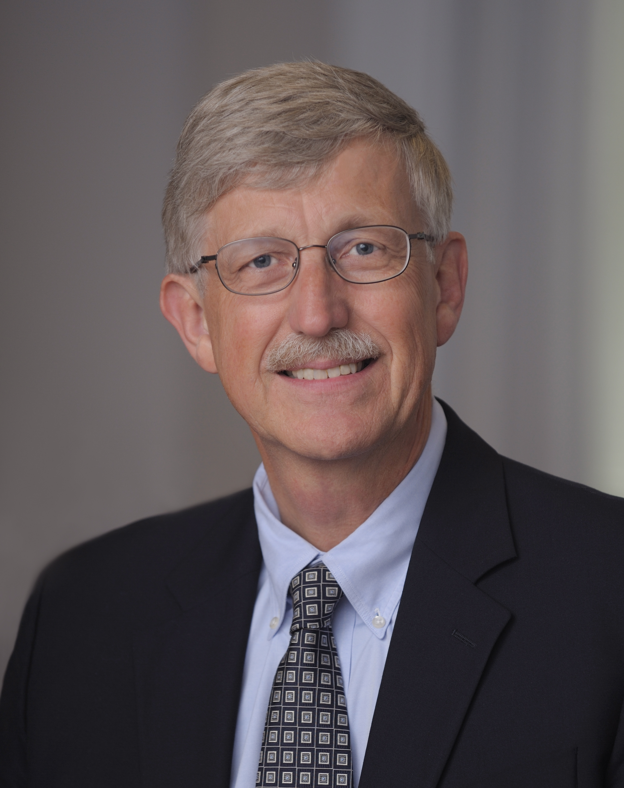 Official portrait of NIH Director Francis Collins.